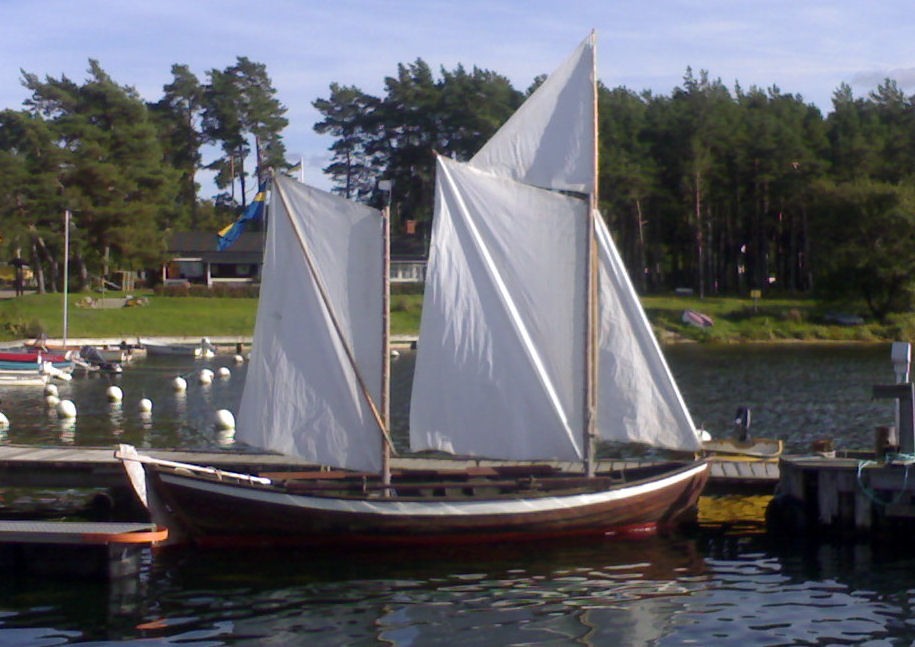 Traditional boat of Gotland, built 2000, with two pairs of oars. Note the topsail, not too common on sprit riggs.